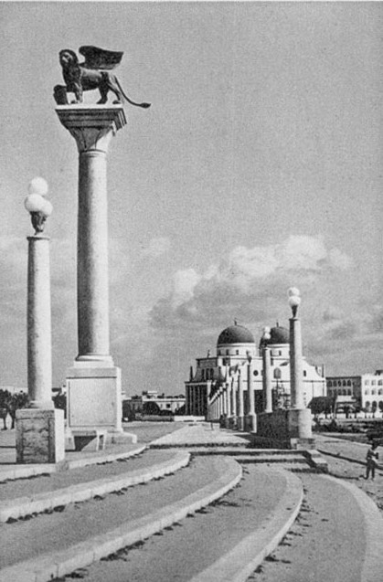 Victory st. in Benghazi, Libya. (Via Vittoria Bengasi)